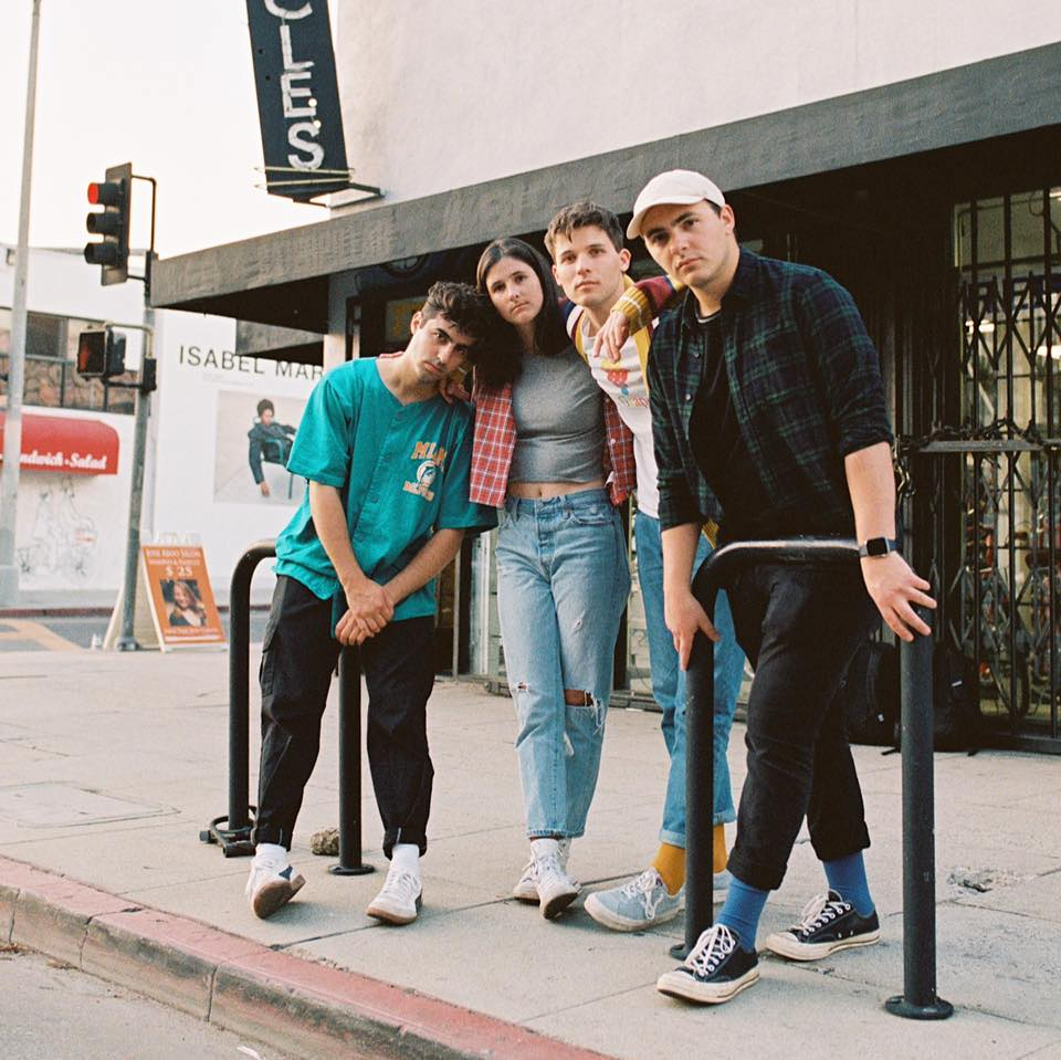 Valley (band) profile photo by Shannon Beveridge (@nowthisisliving) 2019